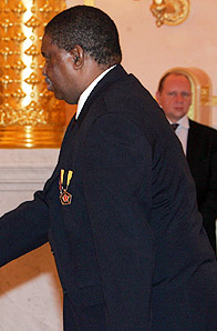 ALEXANDER HALL, GRAND KREMLIN PALACE. Ambassador of the Republic of Zimbabwe Pelekezela Mpoko presents his letter of credentials.